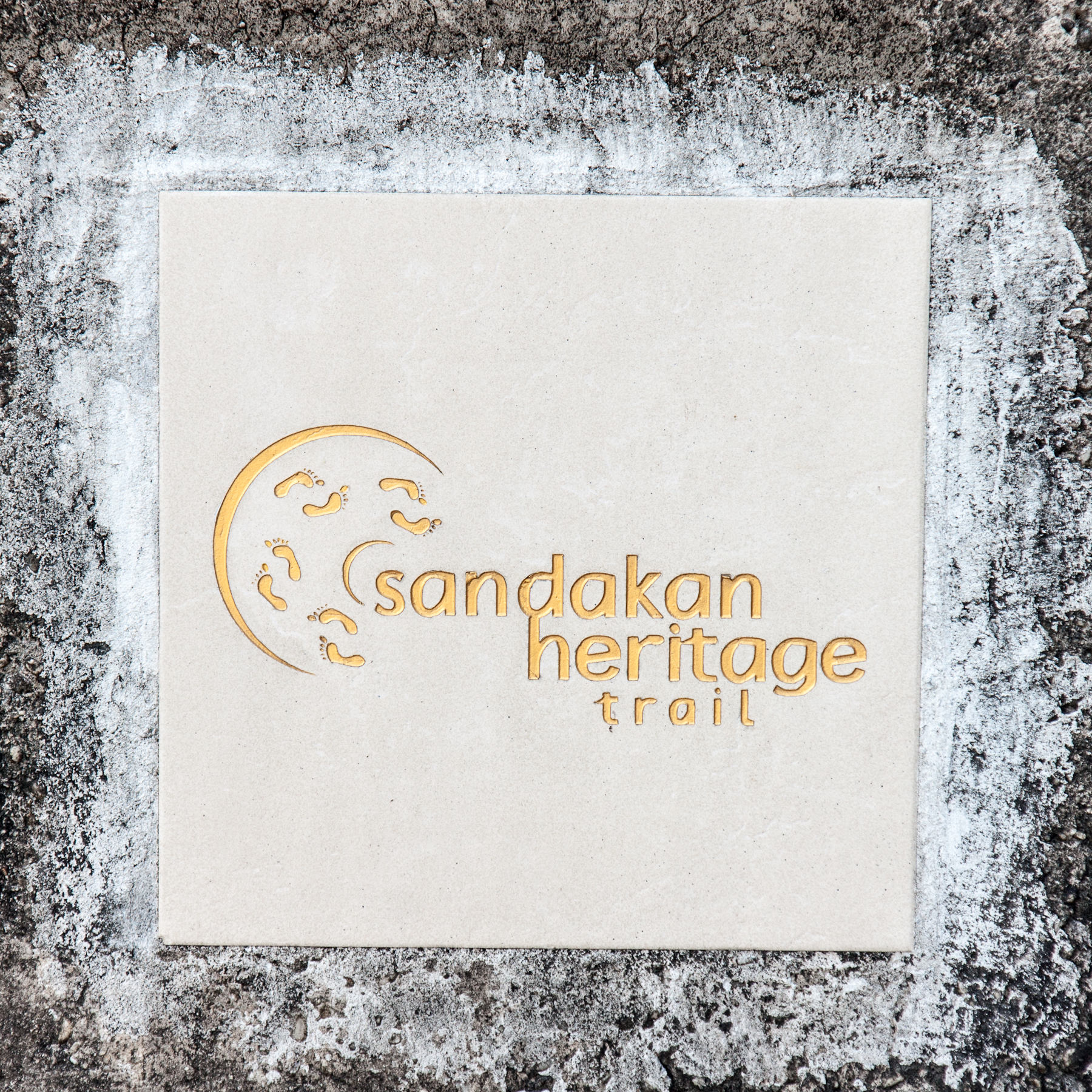 New Marker of the Heritage Trail Sandakan